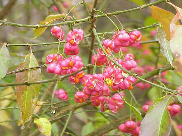 Species: Euonymus europaeus Family: ' Image No. 3